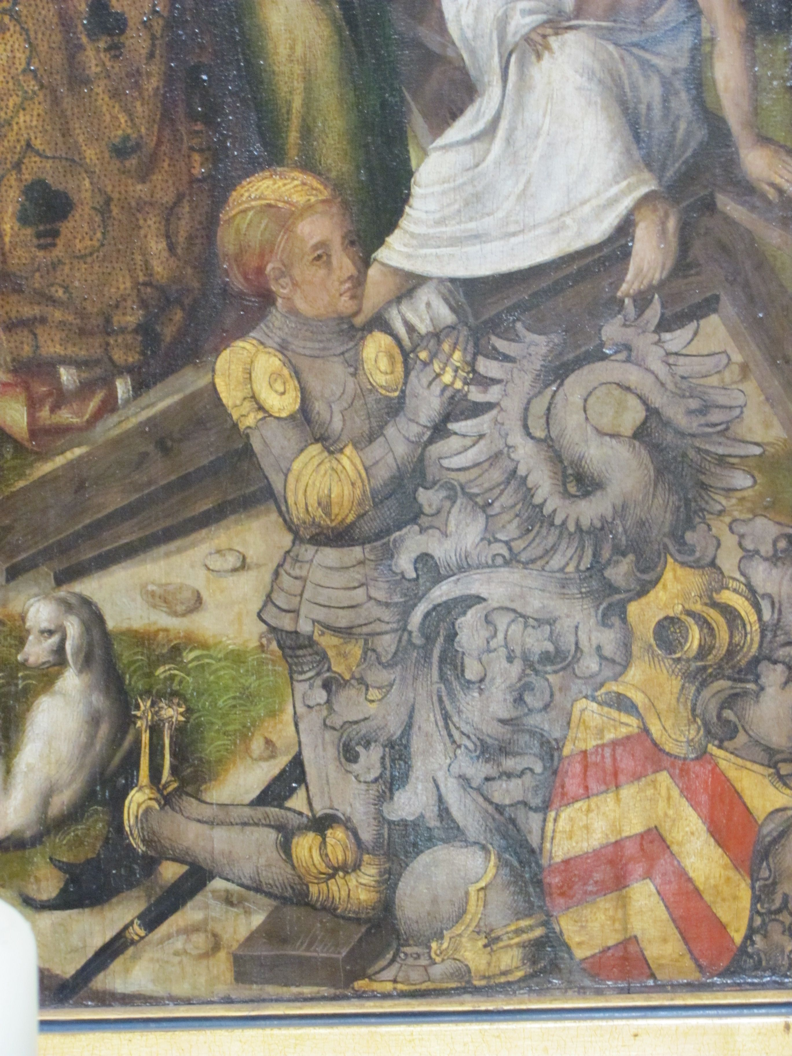 Count Reinhard III of Hanau - from the altar-painting of the Woerther Altar